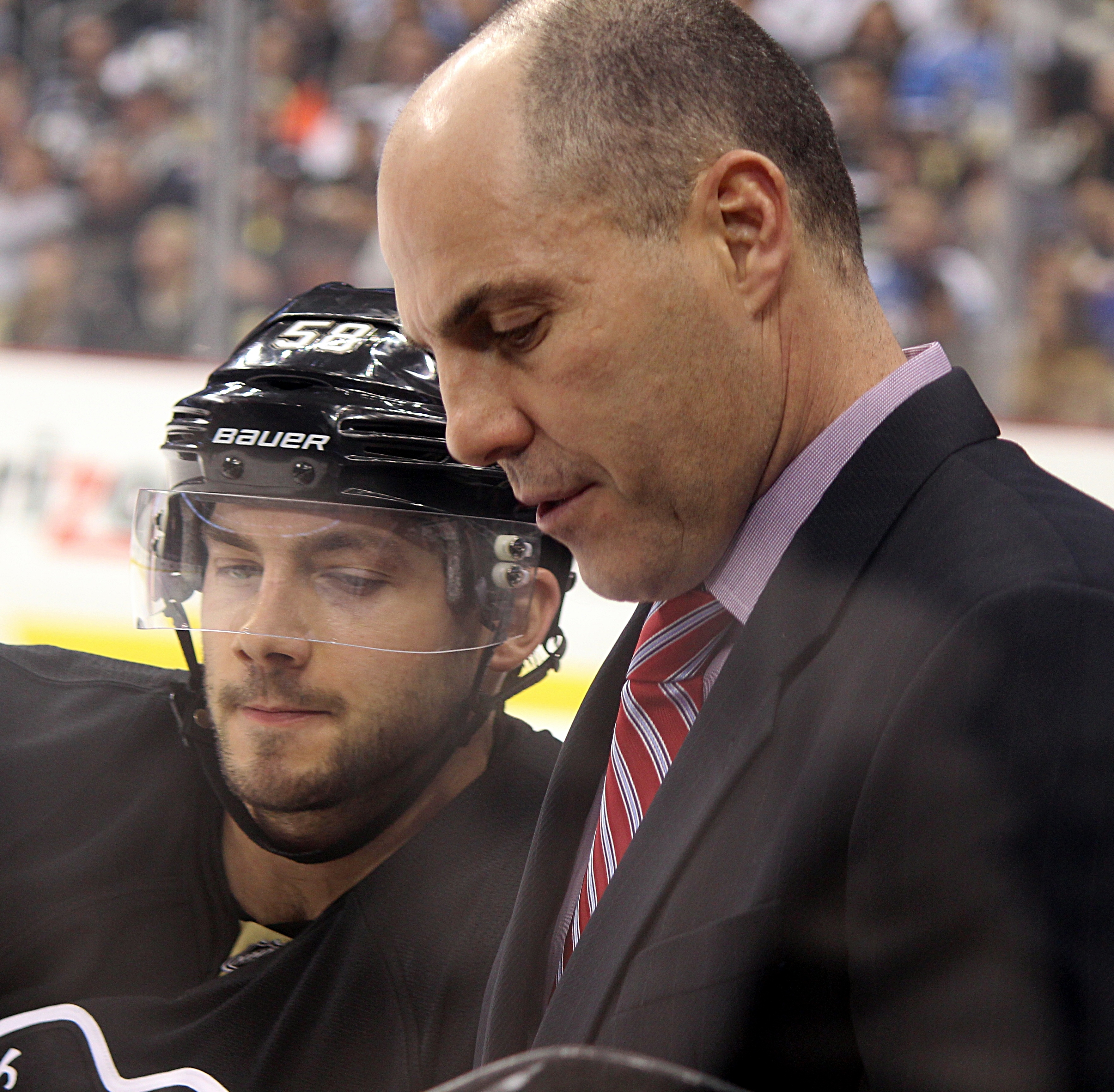 Pittsburgh Penguins assistant coach Rick Tocchet talks to defenseman Kris Letang during a game against the Calgary Flames, December 12, 2014, at Consol Energy Center in Pittsburgh, PA.